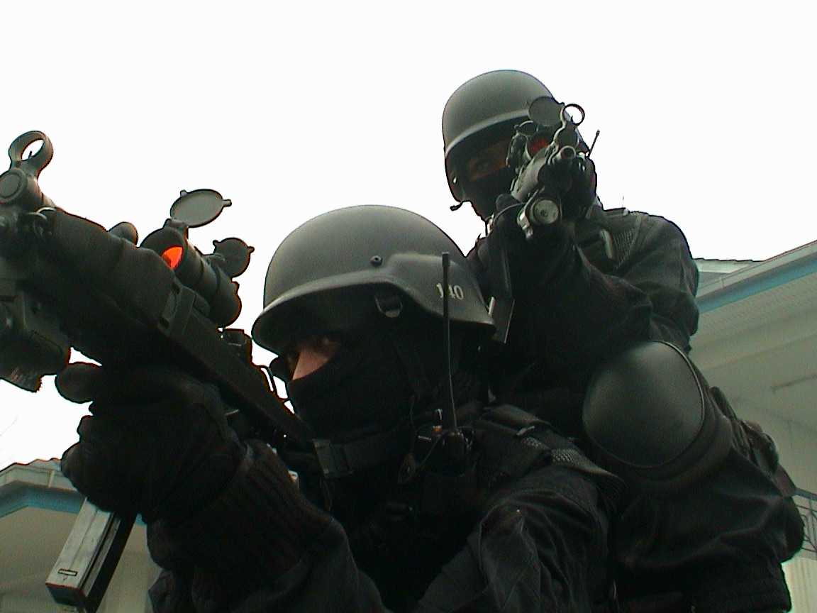 Two operatives of PGK Detachment A including one female operator arms with Heckler & Koch MP5-N submachineguns. The MP5-N used by the team is equipped with an Aimpoint CompM2 Red-Dot optical sight and Insight Technology tactical flashlight.